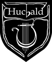 Logo of SV Hucbald, the Utrecht Student Association for Musicology